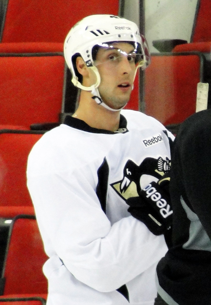 Robert Bortuzzo during a break in the Pittsburgh Penguins morning skate December 3, 2011 at RBC Center in Raleigh, NC. That night Bortuzzo and the Penguins would take on the Carolina Hurricanes.